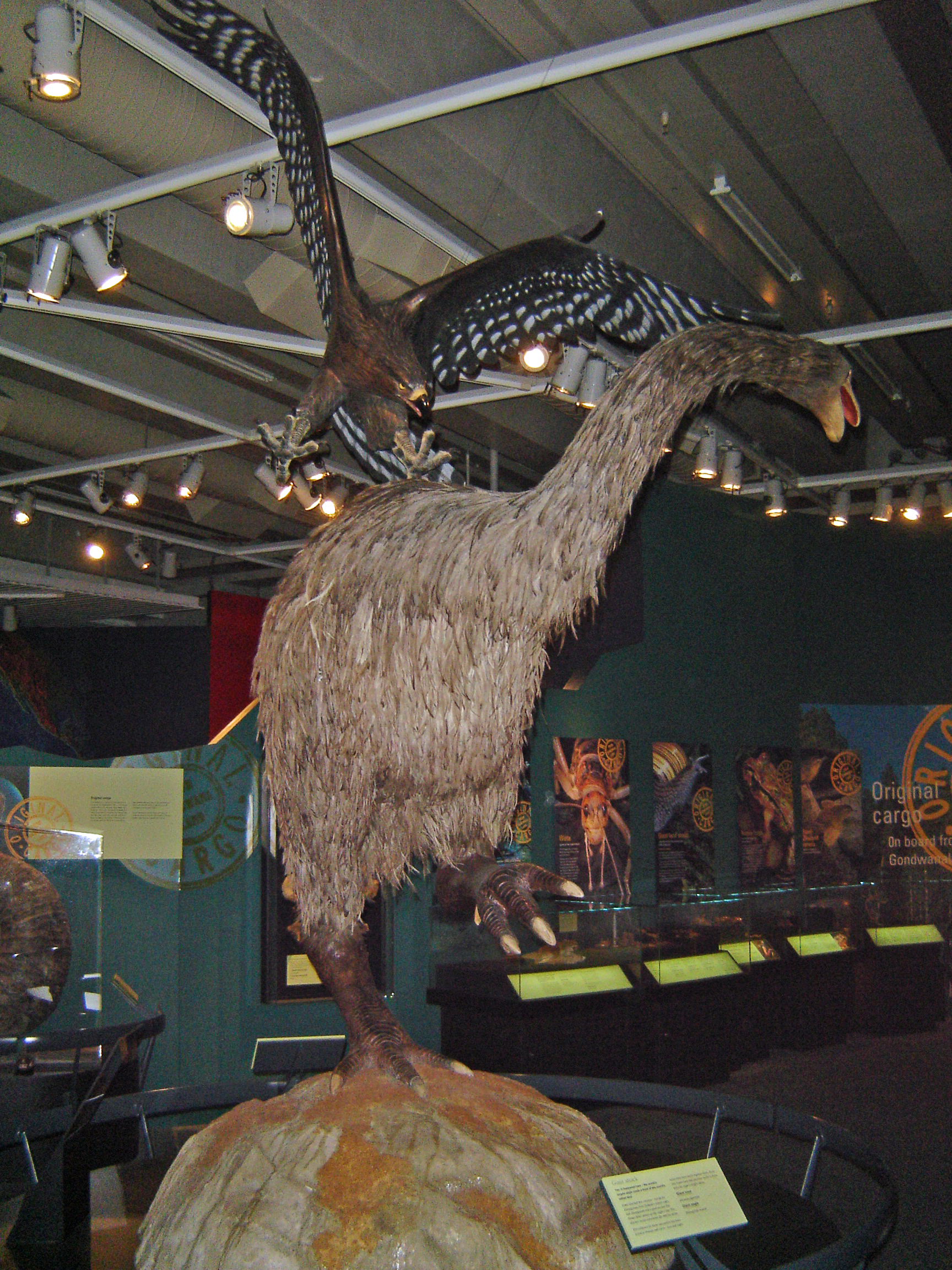 A model of a Haast's Eagle attacking a moa on display at Te Papa.